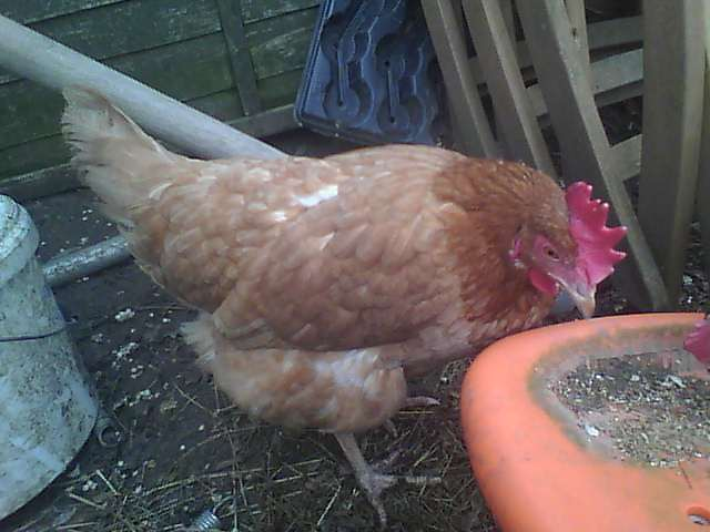 A New Hampshire hen looking around for food.